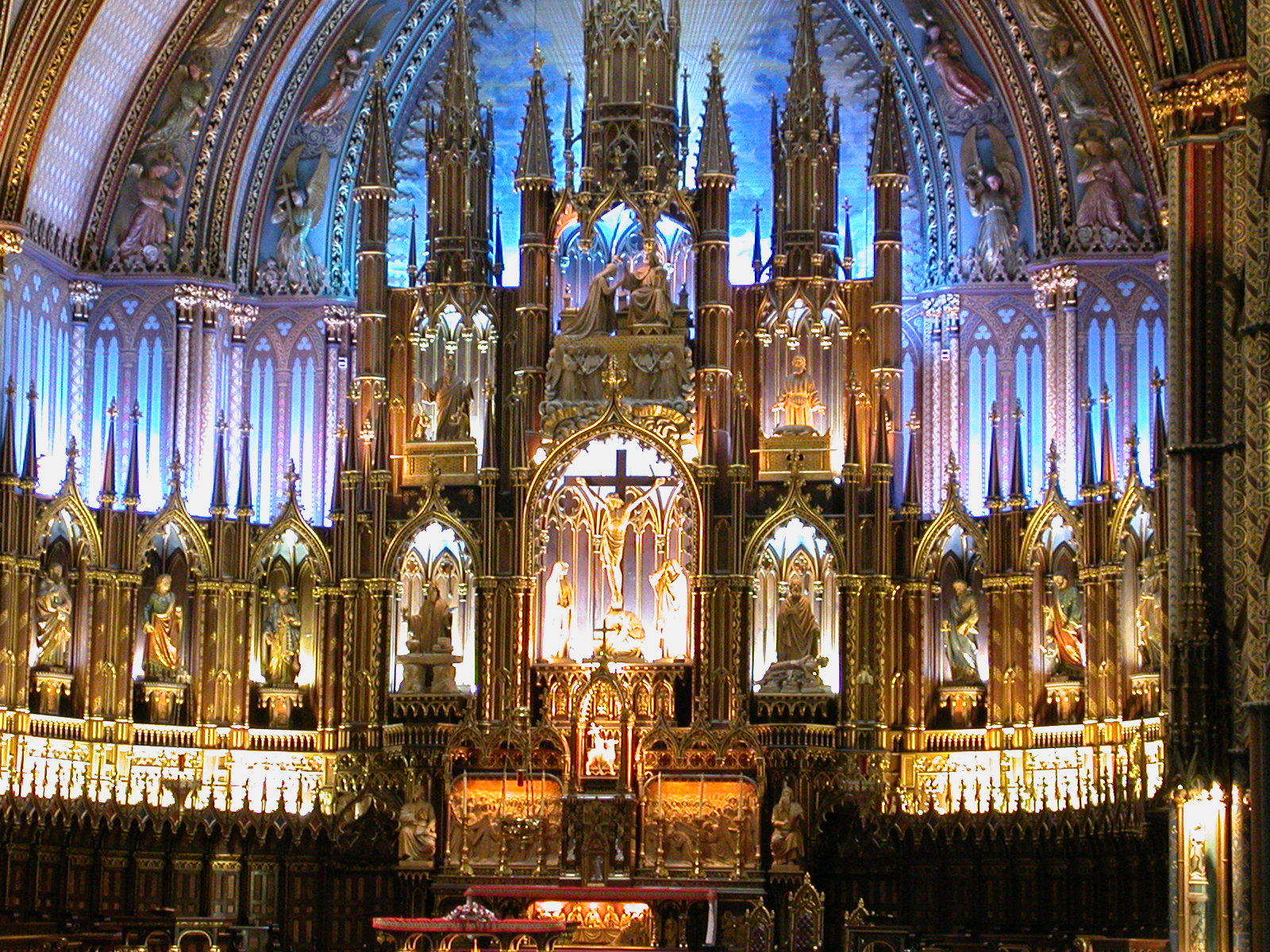 The altar at Notre Dame basilica in old MontrealNDM altar